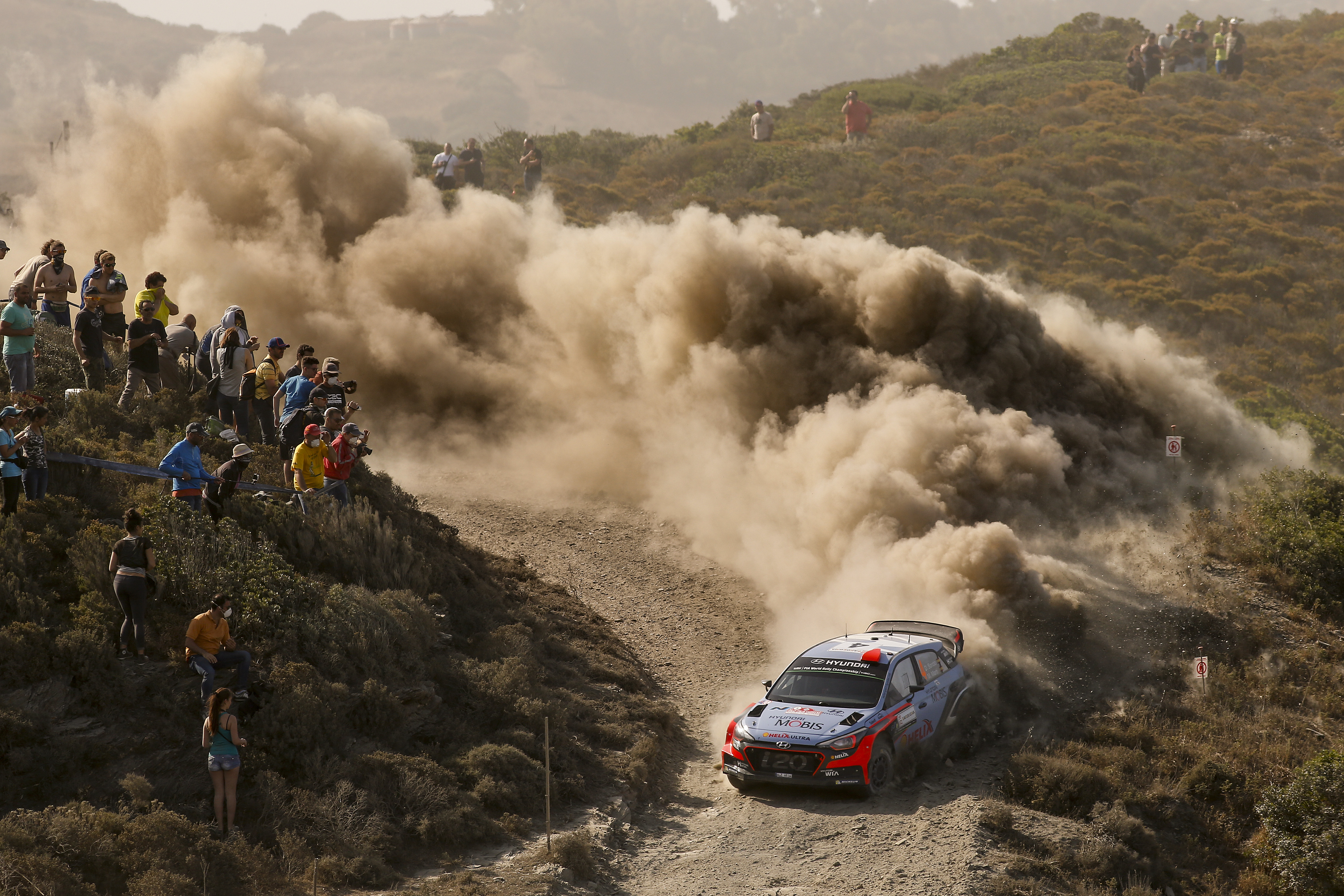 2016 FIA World Rally Championship / Round 06 / Rally d'Italia Sardegna // June 09-12, 2016 //